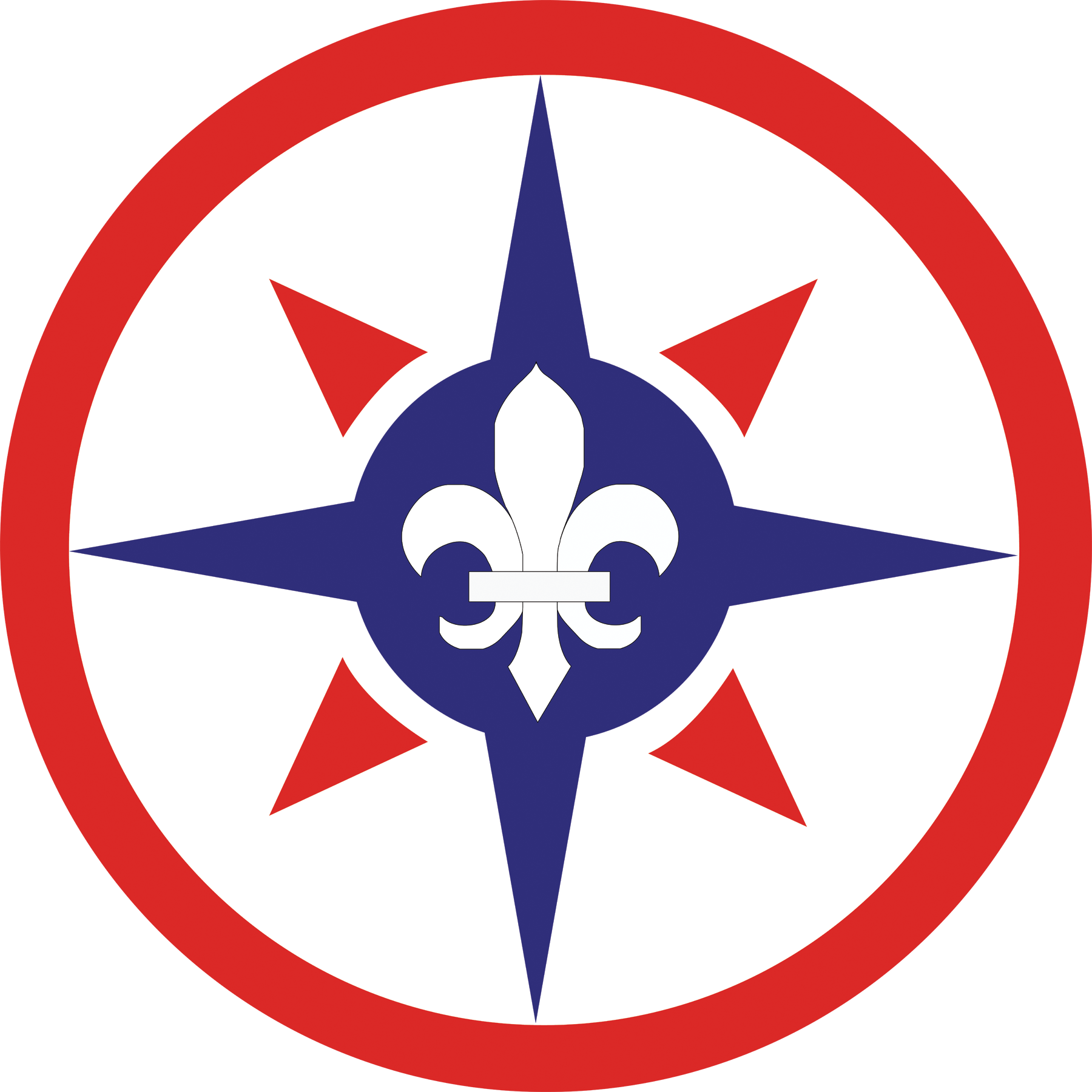 A high res png of the 316th ESC SSI